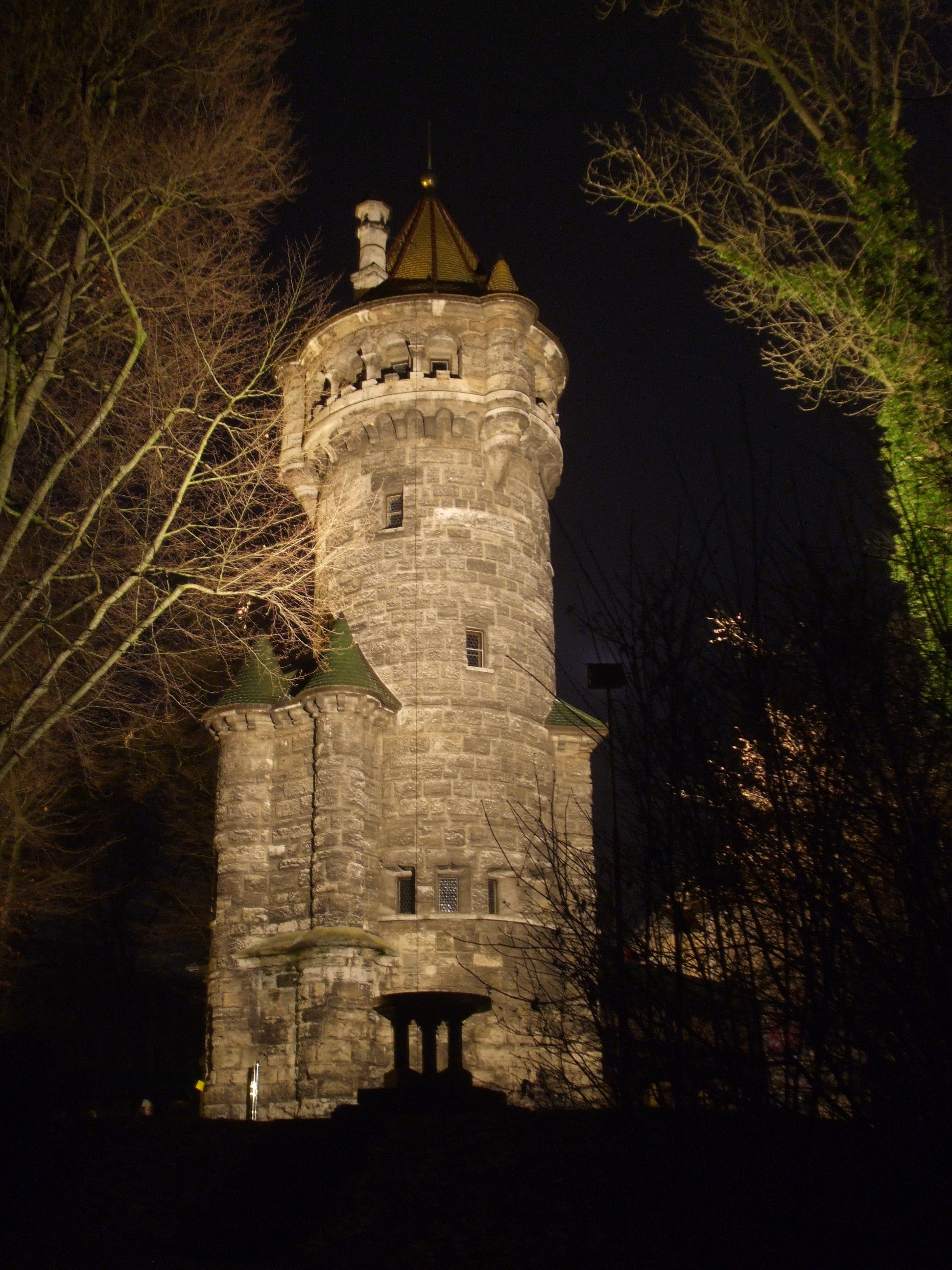 The 30 m high Mutterturm [Mother's Tower] was built by Hubert von Herkomer in ~1880~1888, to honour his mother who deceased in 1879 in its nowadays sidehouse. To which extent Henry Hobson Richardson, the designer of Herkomer's Lululaund, might have been involved, will remain uncertain. HvH did probably not meet Richardson, one of his sitters in 1886, before that year, but he was with high probability aware of Richardson's style several years earlier. The tower's sidehouse, formerly a residential building, houses the Landsberg Herkomer Museum since 1990.